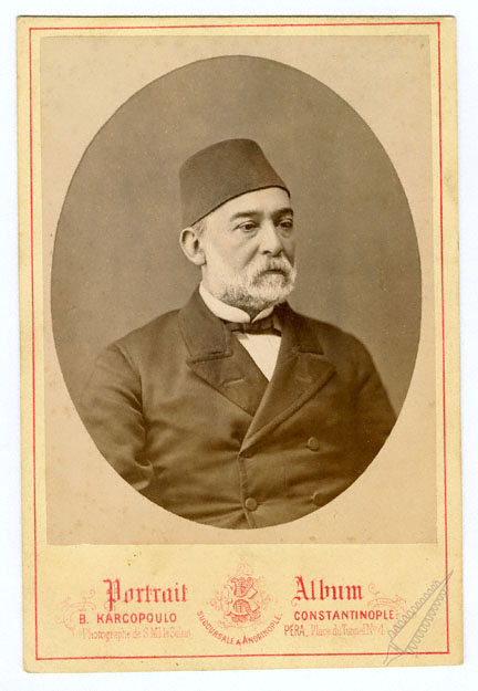 Old photograph of George Zarifis, a businessman from Mytilini.